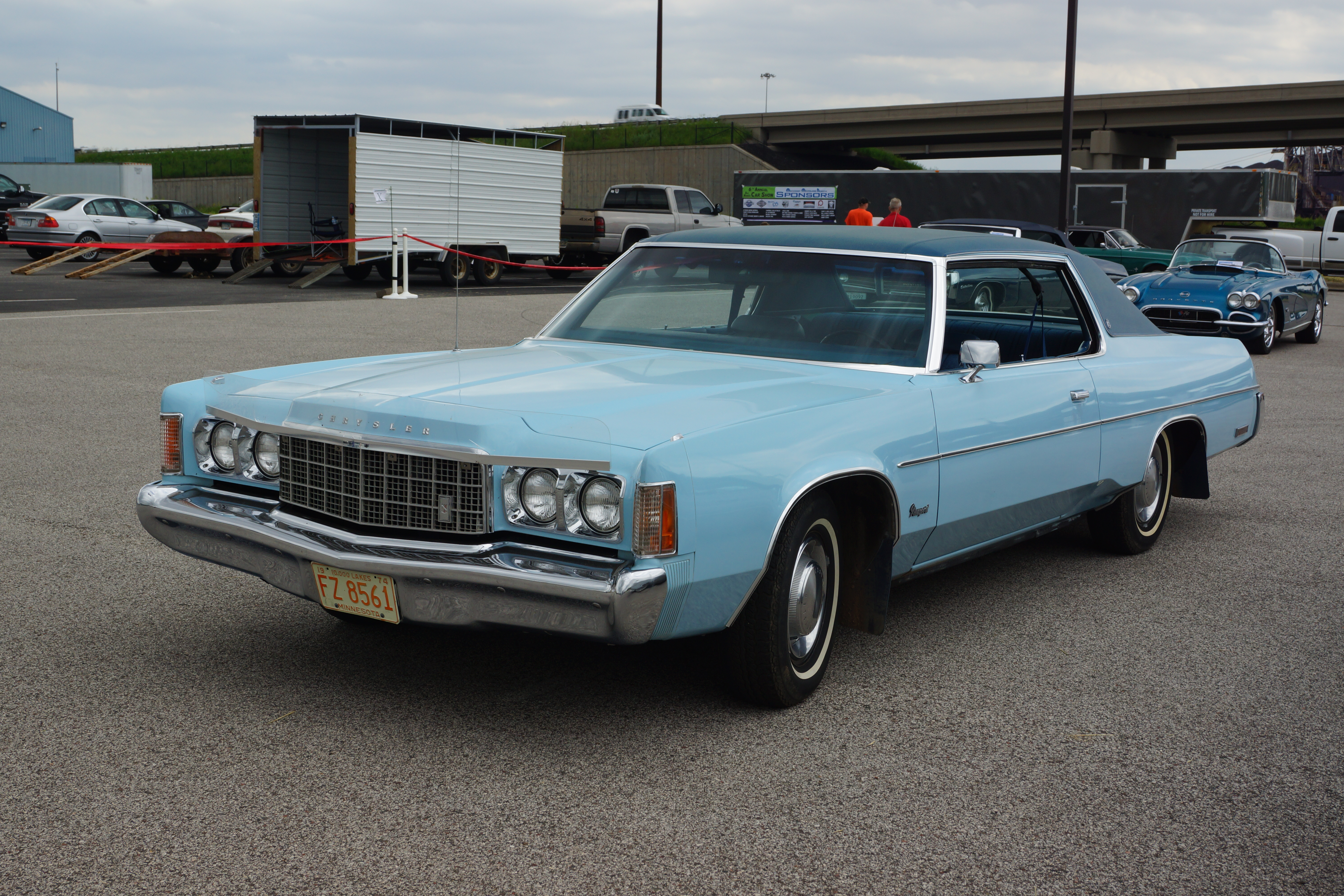 Midwest Mopars North 6th Annual All Makes Car Show Clyde Iron Heritage Center Duluth, Minnesota June, 2016 Click here for more car pictures at my Flickr site.